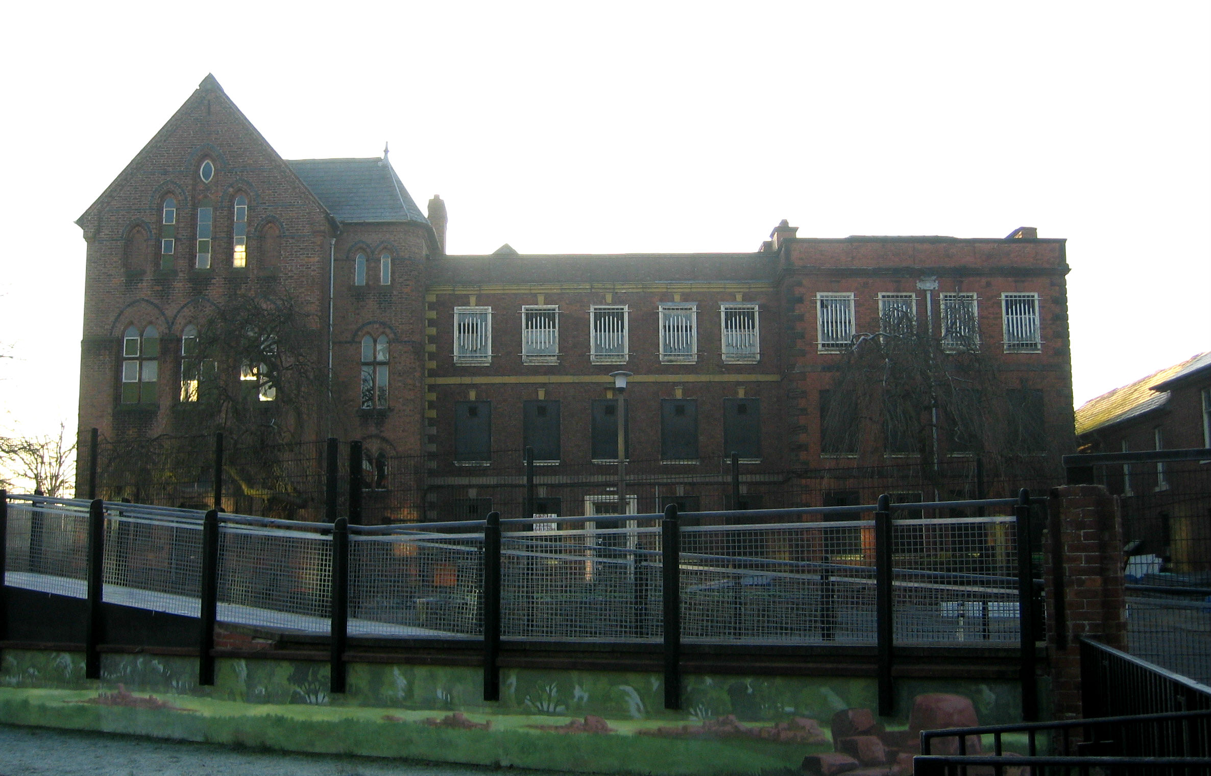 Photograph of Dee House, Chester